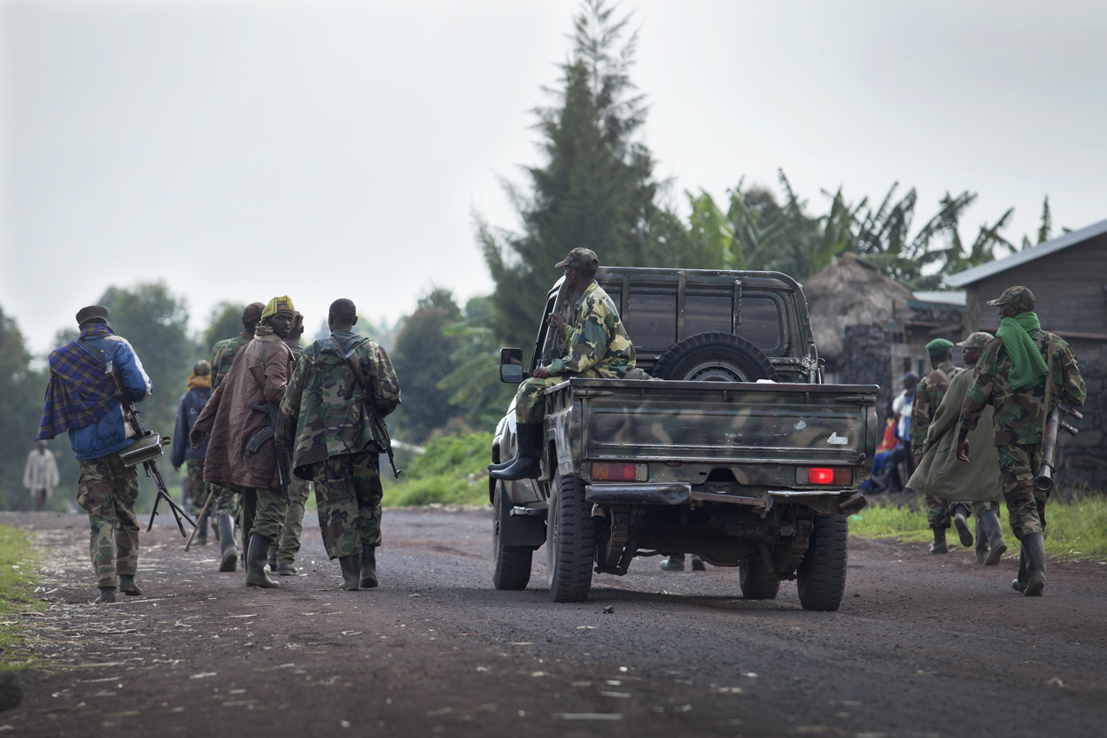 M23 fighters loyal to Bosco Ntaganda move along the road towards Goma as Peacekeepers observed gathering of armed people North of the city, the 1st of March 2013. © MONUSCO/Sylvain Liechti